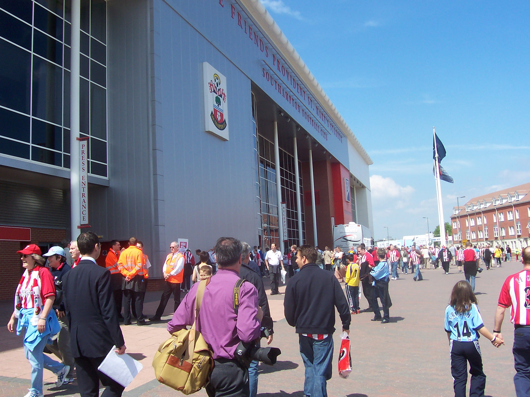 Exterior of the Itchen Stand, May 2004